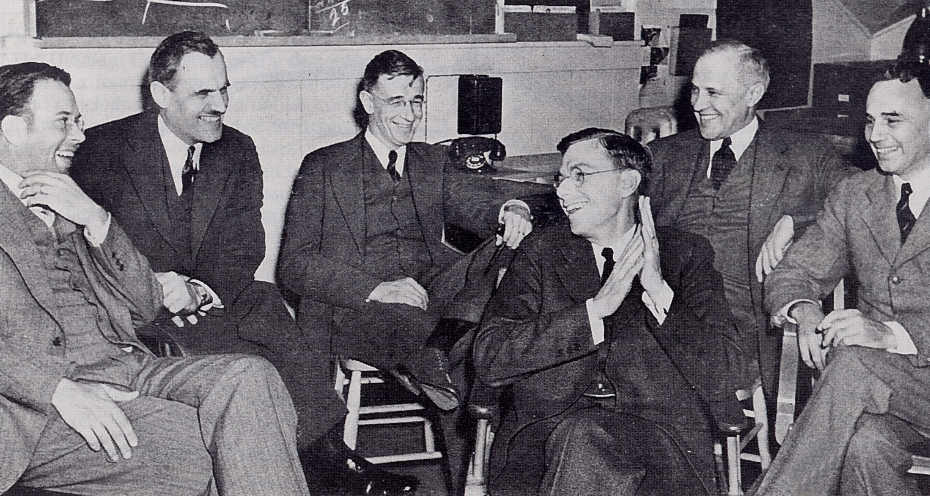 A meeting regarding the 184-inch cyclotron project, held at the University of California, Berkeley, on March 29, 1940. Left to right: Ernest O. Lawrence, Arthur H. Compton, Vannevar Bush, James B. Conant, Karl T. Compton, and Alfred L. Loomis.